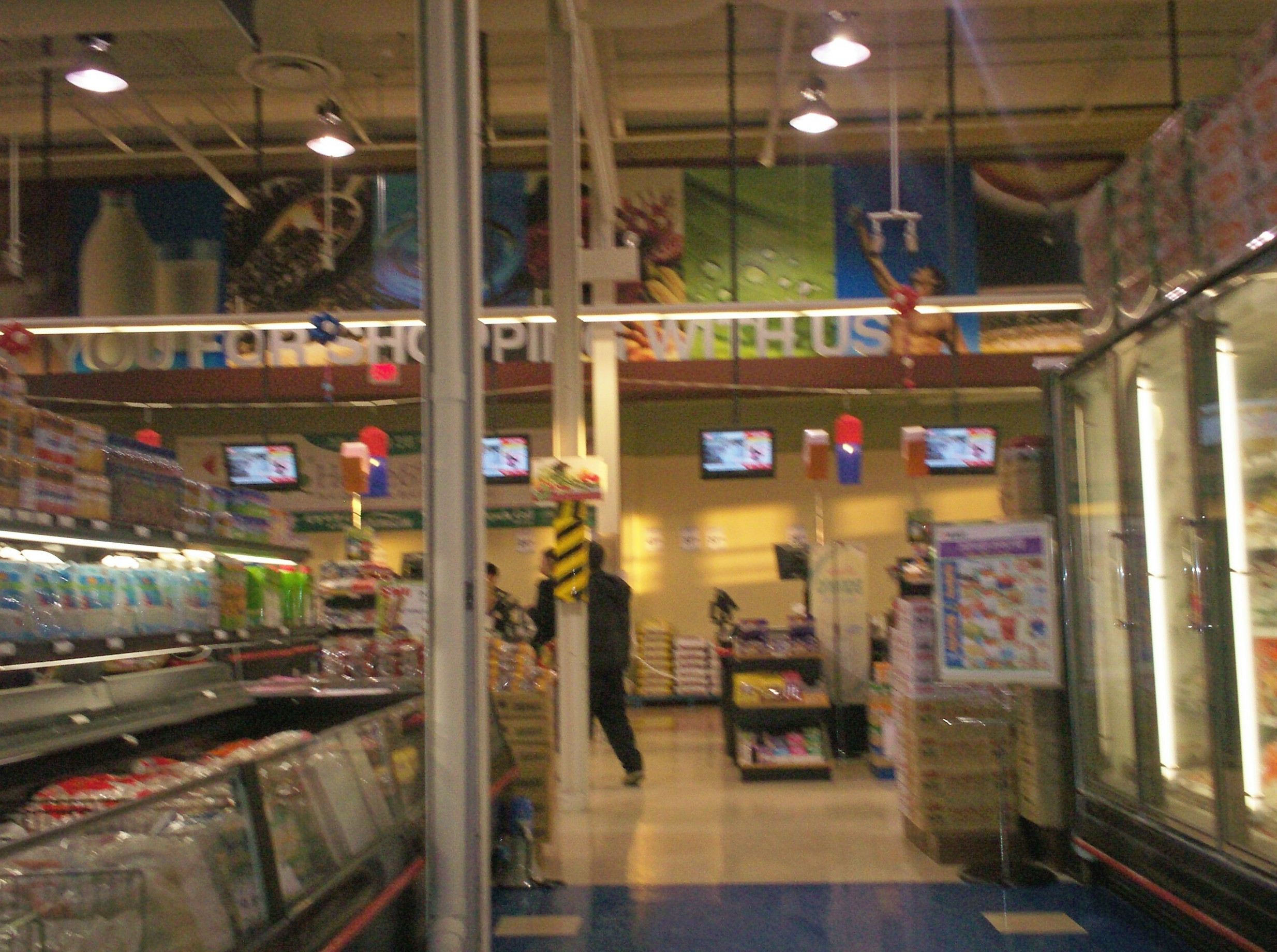 hmart